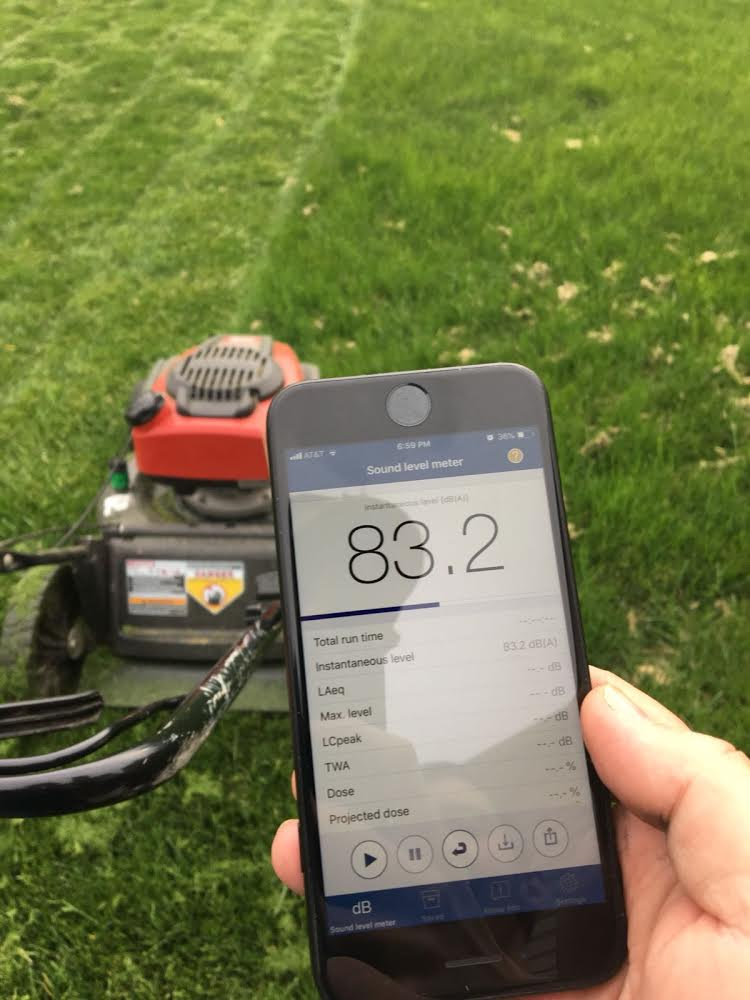 Noise level from a lawn mower showing 83 decibels, A-weighted, measured using the NIOSH Sound Level Meter app